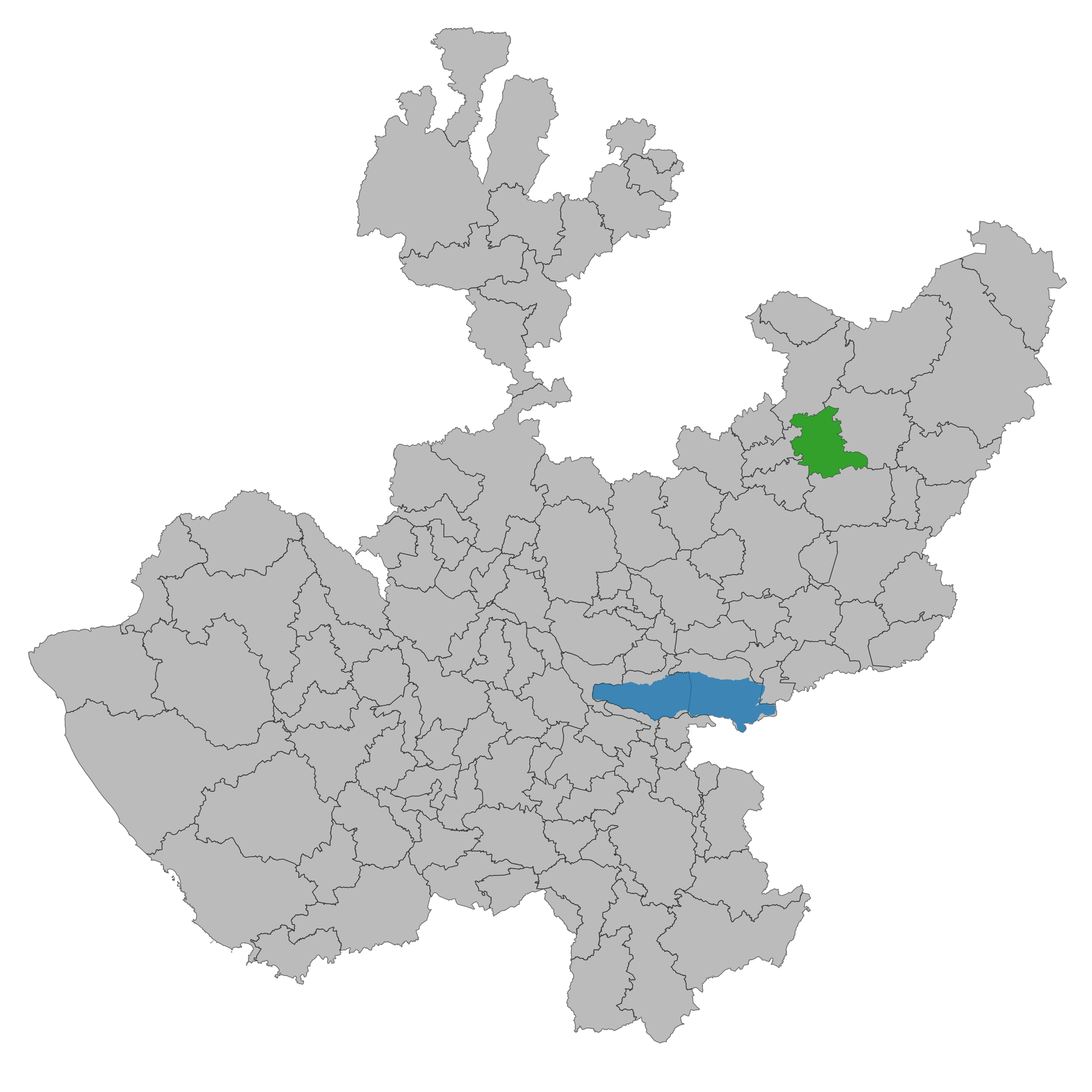 Municipality of Jalisco. Prepared with the software QGIS version 2.8.2 Wien & with information of SCINCE 2010 version 05/2013